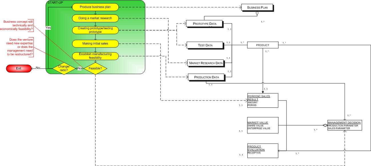 Process data model B